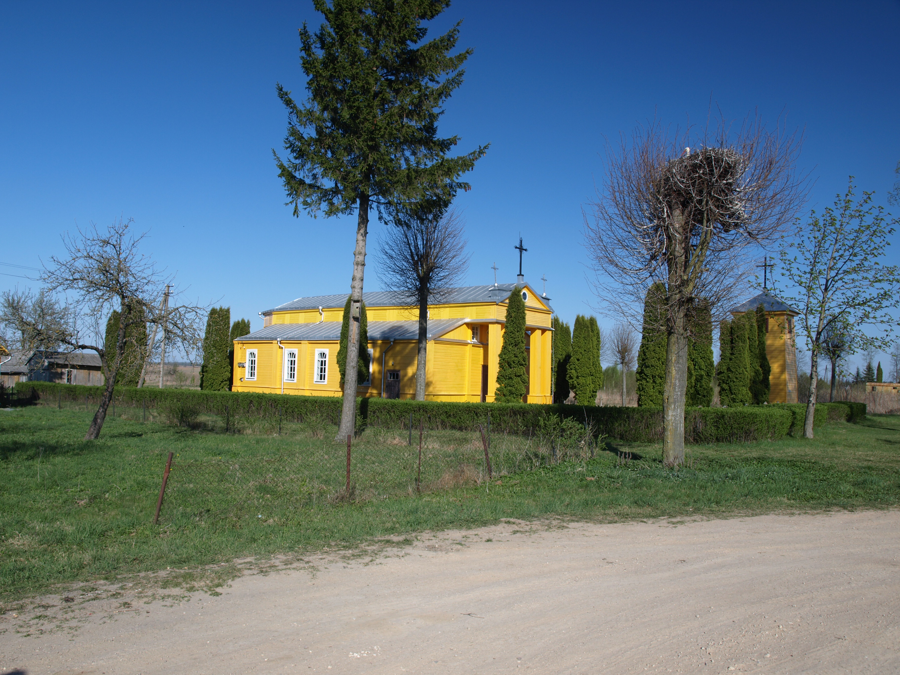 Vosiunai church